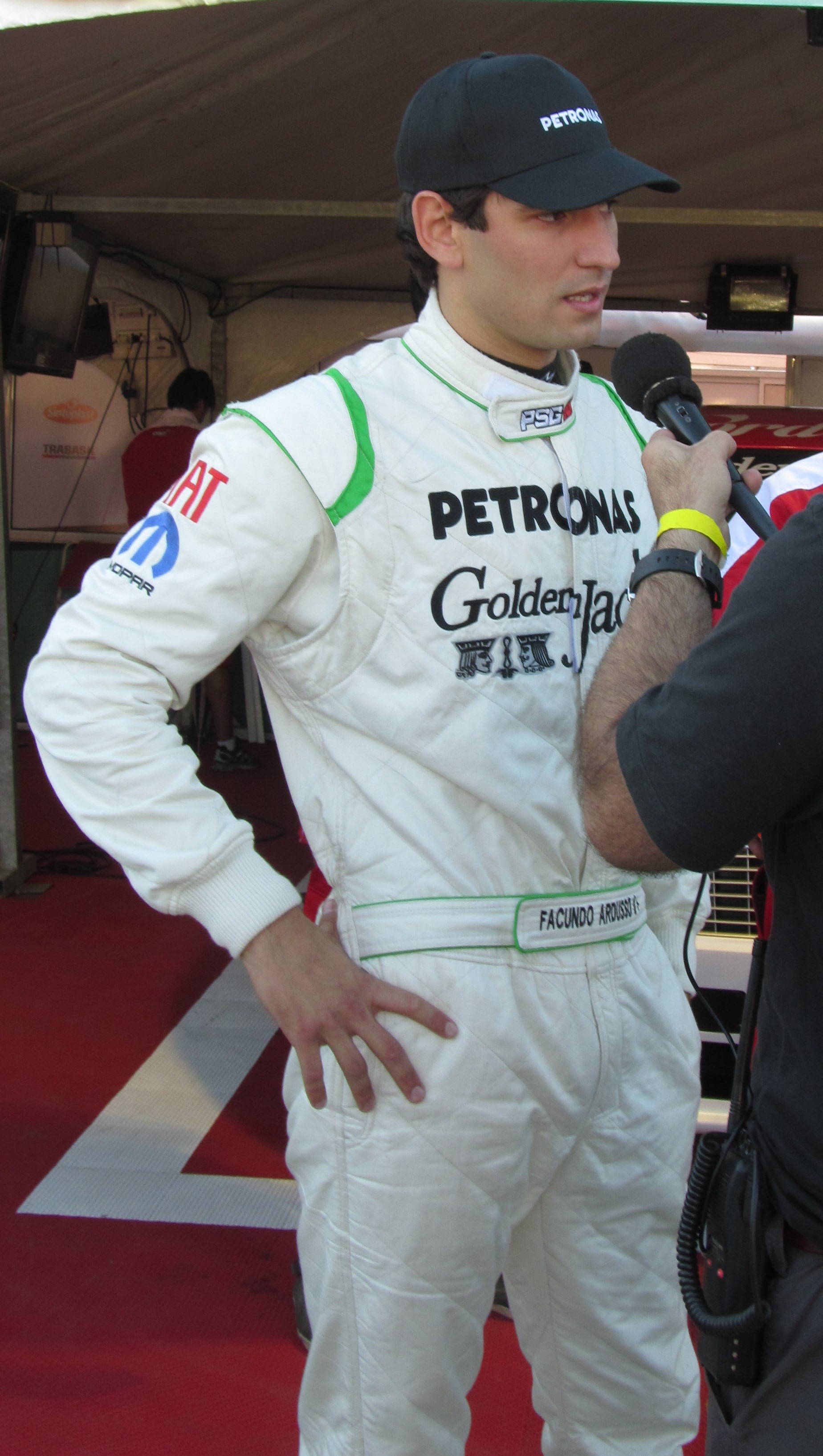 Facundo Ardusso